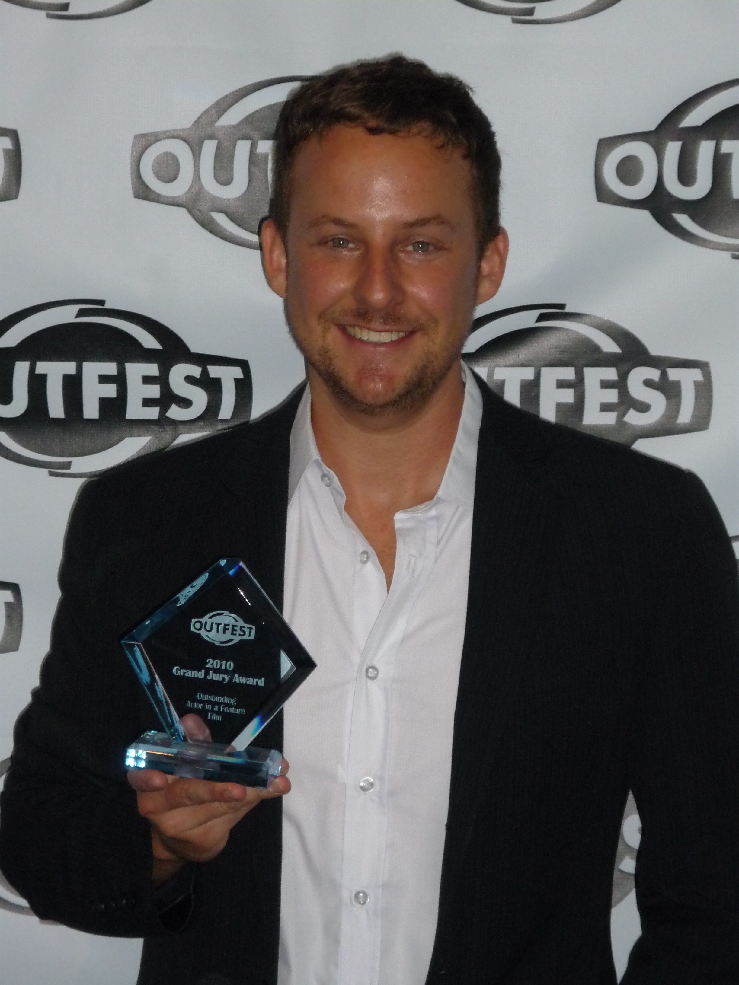 Stephen Guarino wit the 2010 Outfest award